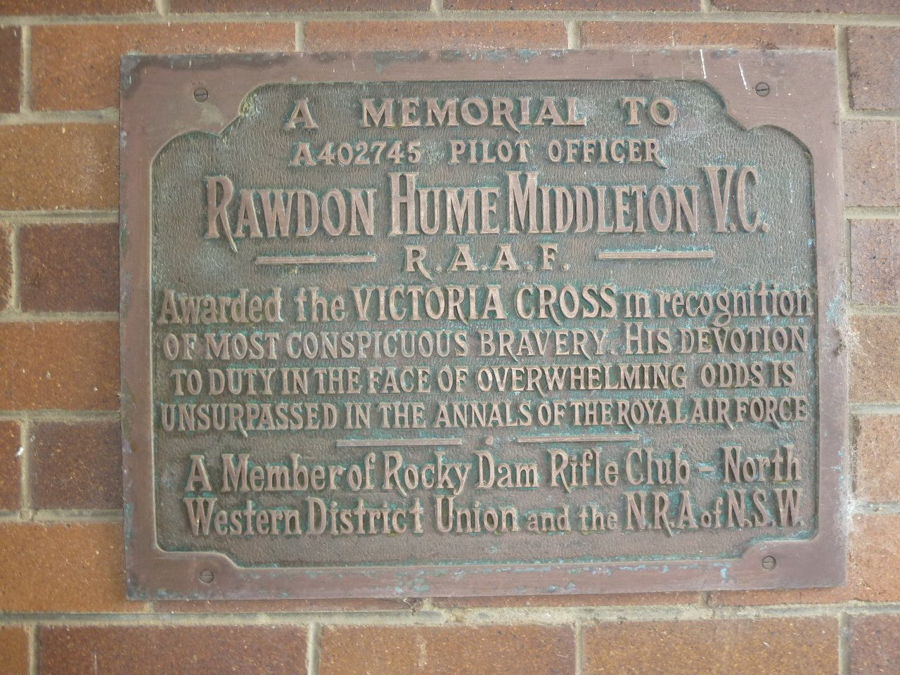 Malabar Headland - Rifle Range Memorial Plaques 1